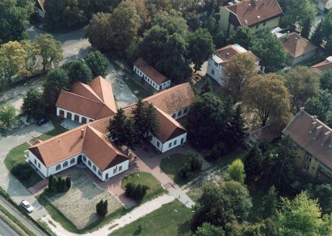 Kiskunhalas, Hungary, aerialphotography. Building and park of the Lace House and Lace Museum